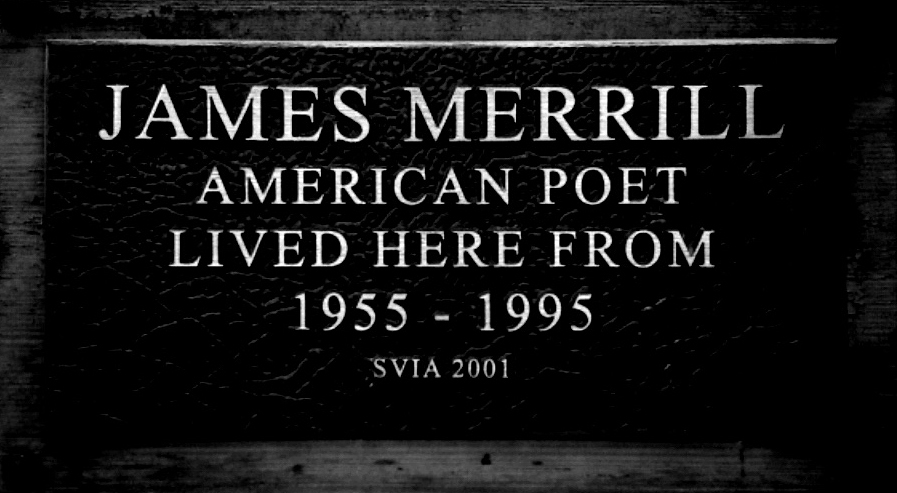 Plaque marking the James Merrill House